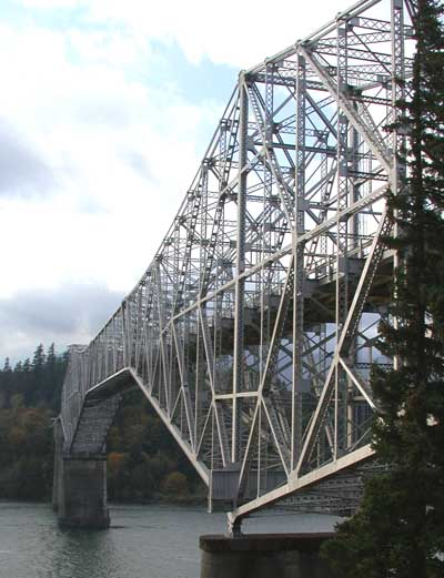 Bridge of the Gods, Oregon, USA it leads across the Columbia River